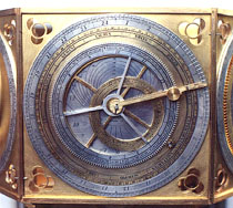 Primum mobile of Astrarium made by Carlo G Croce